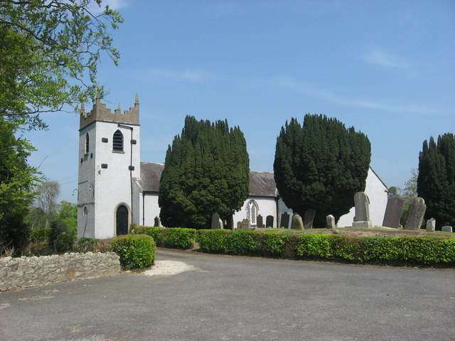 St. Mary's Church, Ballymascanlan Church of Ireland, built 1820, on site of earlier church.